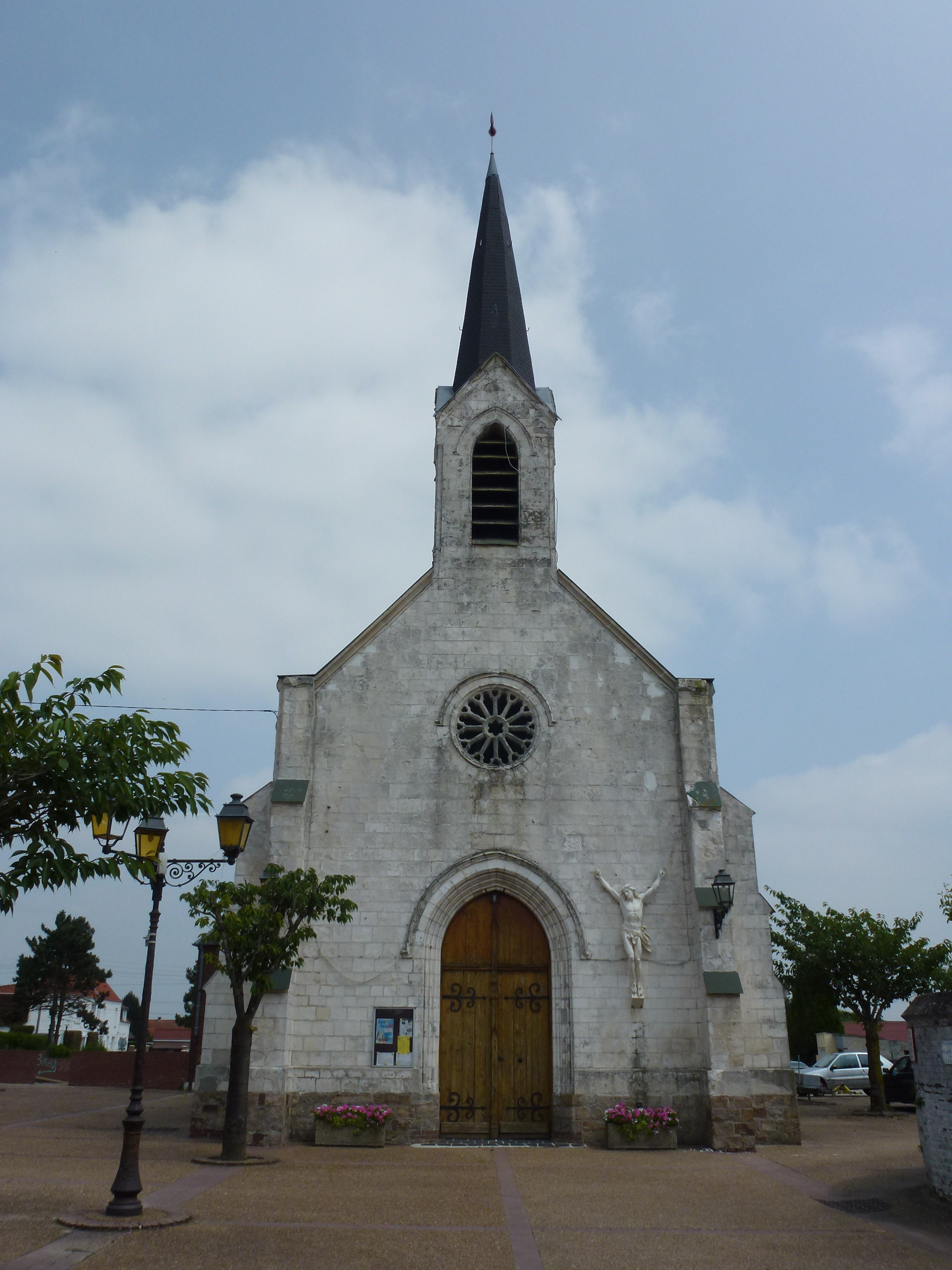 Cauchy-à-la-Tour (Pas-de-Calais, Fr) église